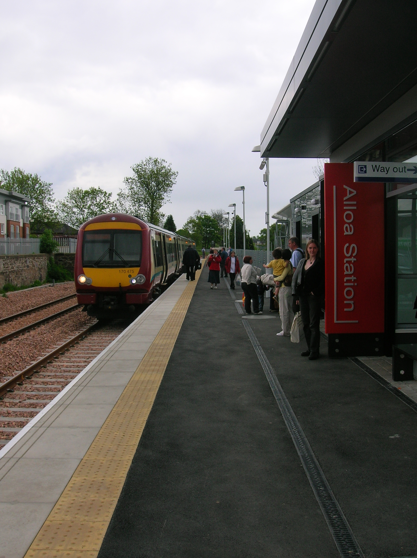 Alloa railway station, Scotland. Day of opening.